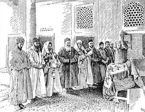 Interior of the Great Synagogue of Bukhara, sketch based on a photograph by Elkan Nathan Adler. From the 1901-1906 Jewish Encyclopedia, now in the public domain. Category:Jewish Encyclopedia images Category:Bukharan Jews Category:Images of Uzbekistan